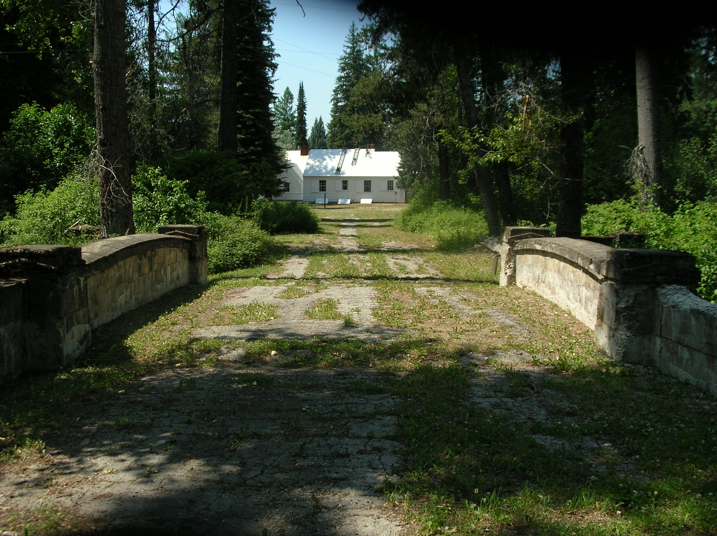 View of bridge and building in the Savenac Nursery Historic District, a historic tree nursery near Haugan, Montana, United States.